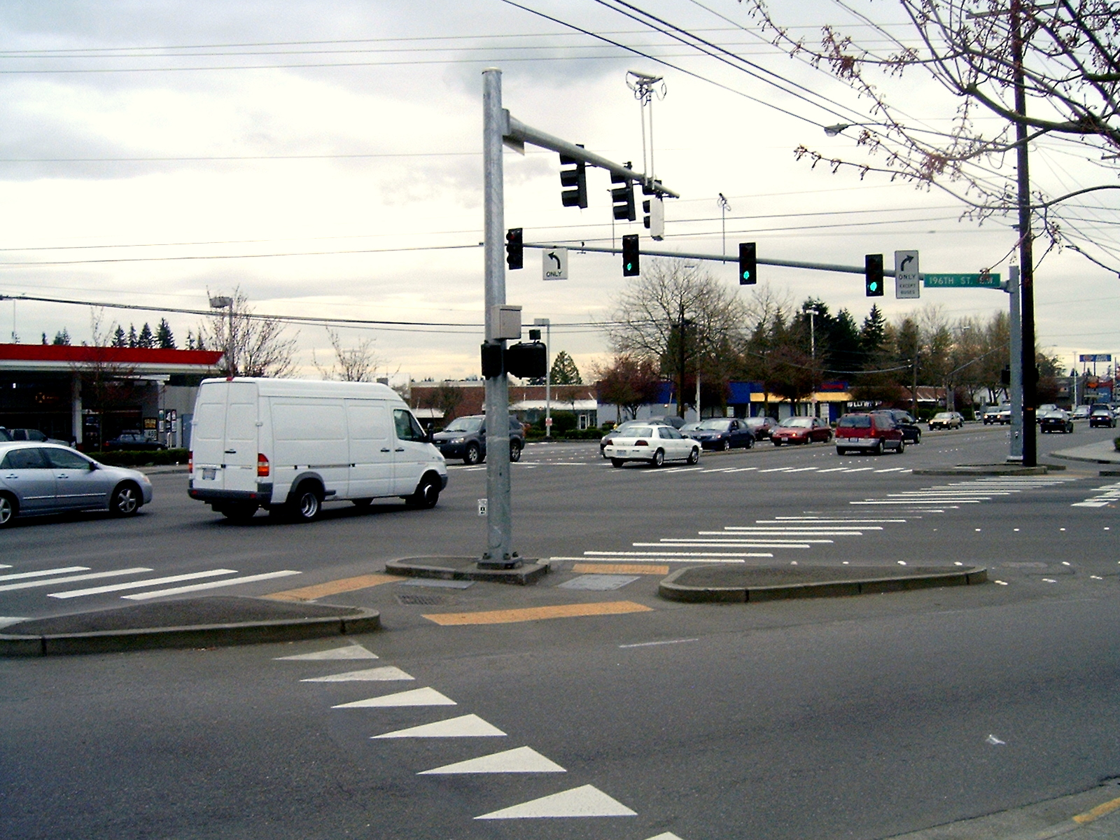 I, Brandon Johnson, took this picture. This picture illustrates one of Lynnwood's busiest intersections, State Route 99 and 196th ST SW.